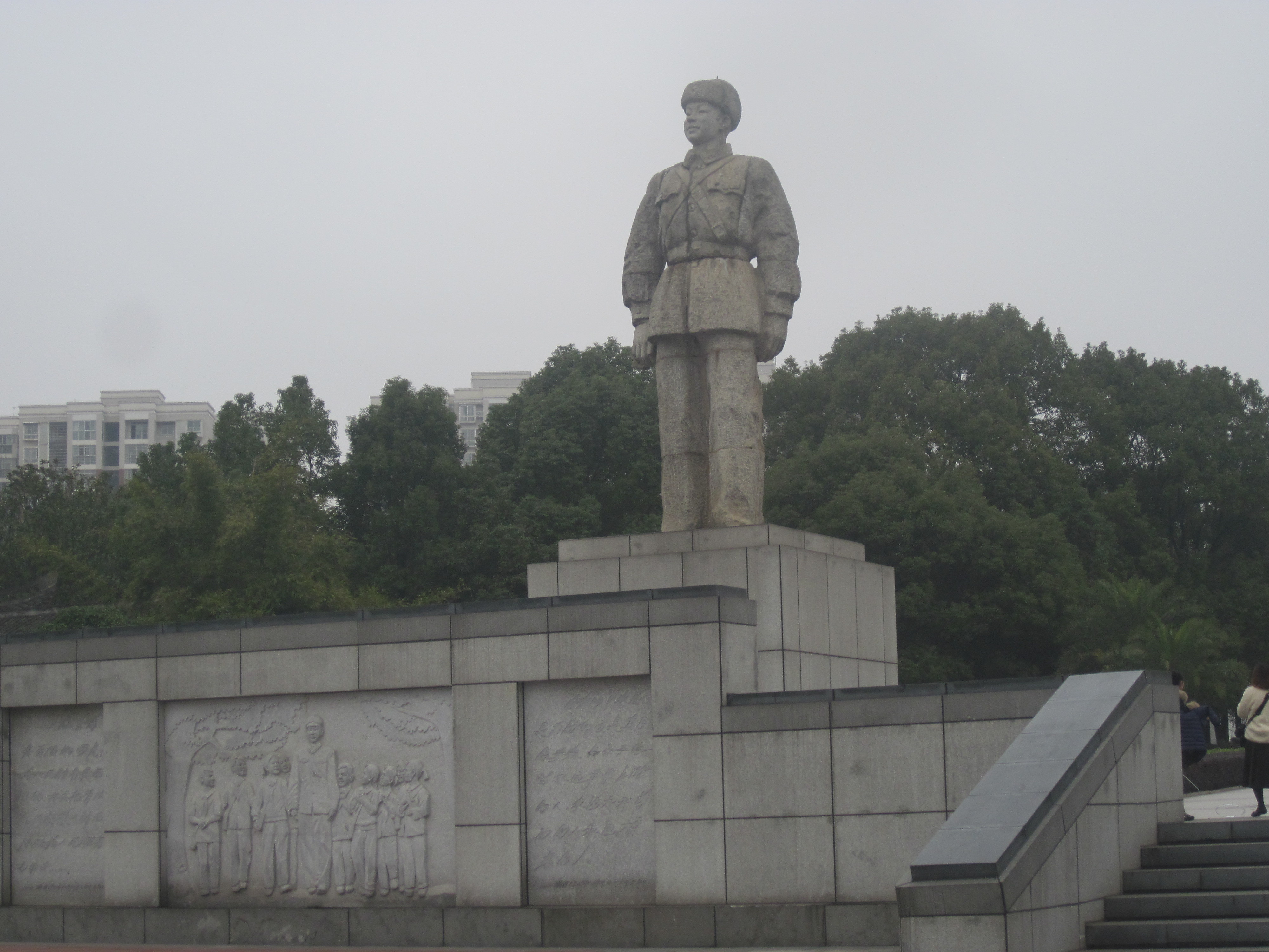 The Statue of Lei Feng in front of the Lei Feng Memorial. 中文（中国大陆）: 雷锋纪念馆前面的雷锋雕像。